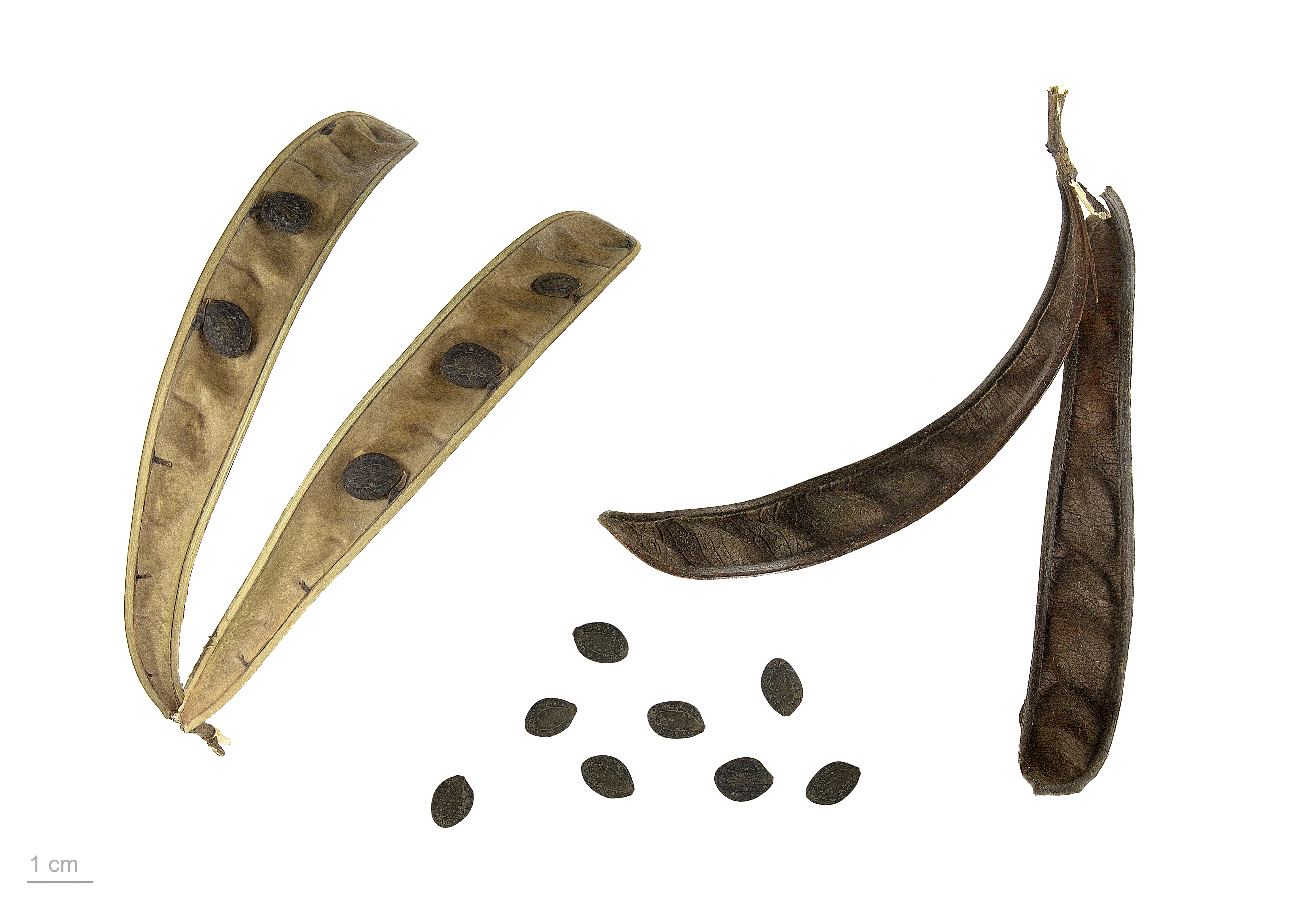 Calliandra calothyrsus, , seeds